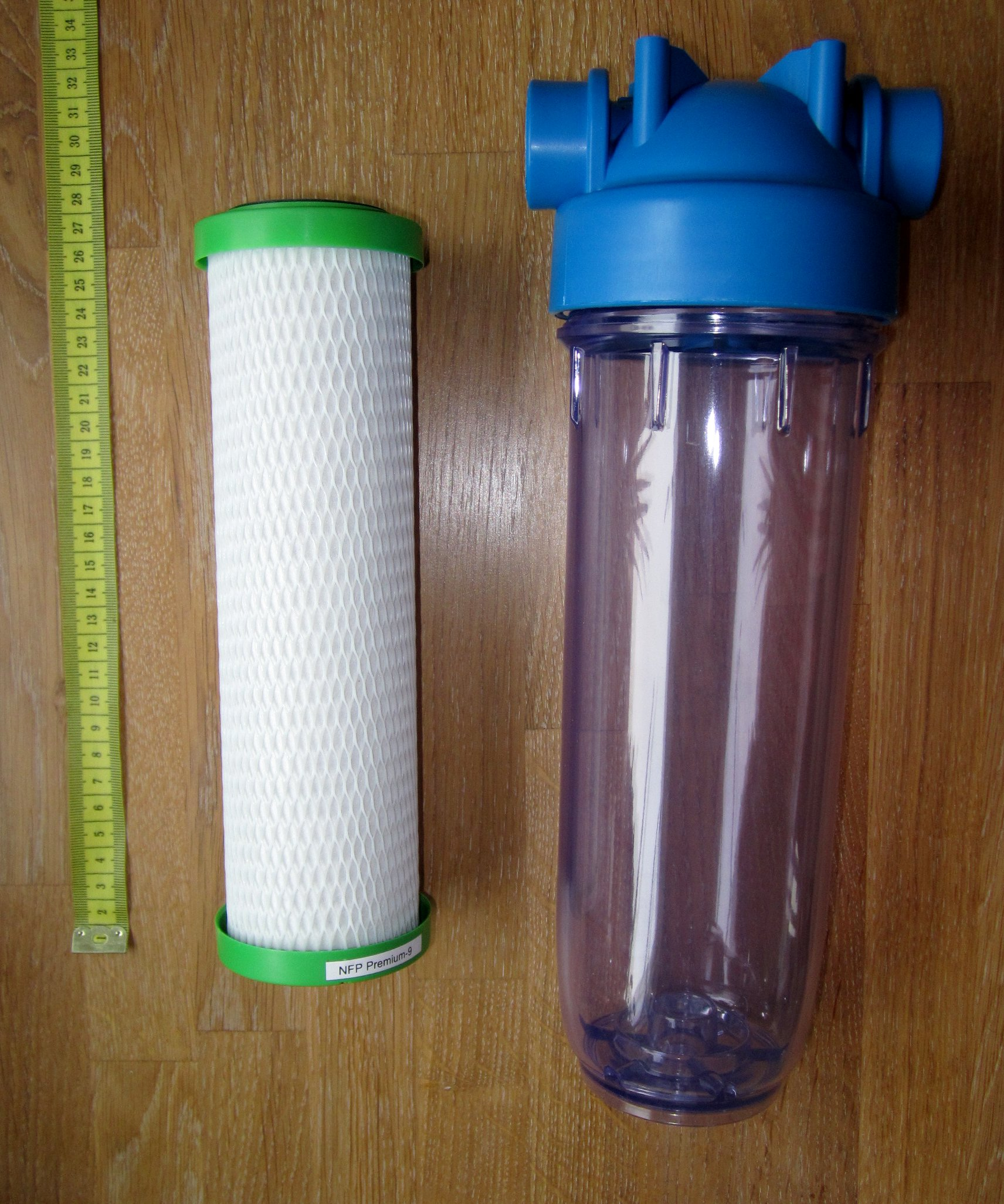 Carbon Filter with 10"Filter Housing, Scale: cm